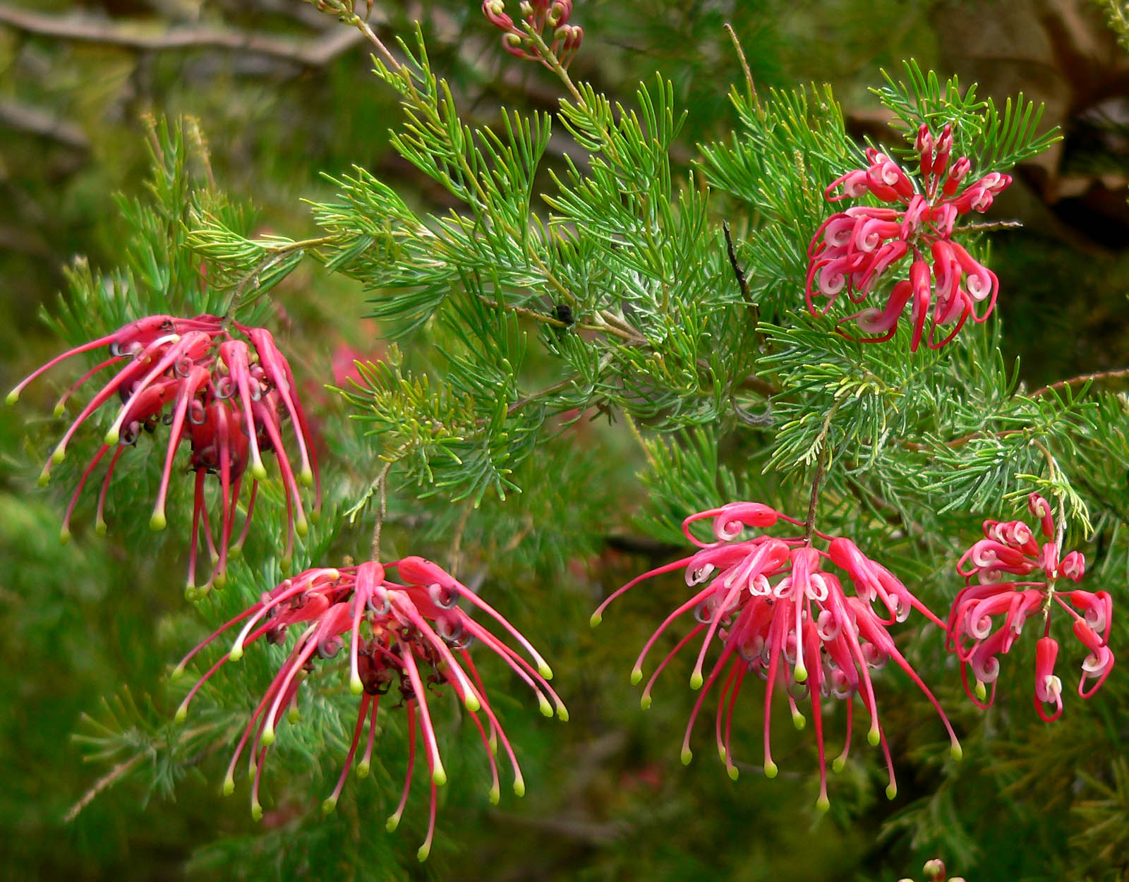 Photo of Grevillea fililoba at the San Francisco Botanical Garden